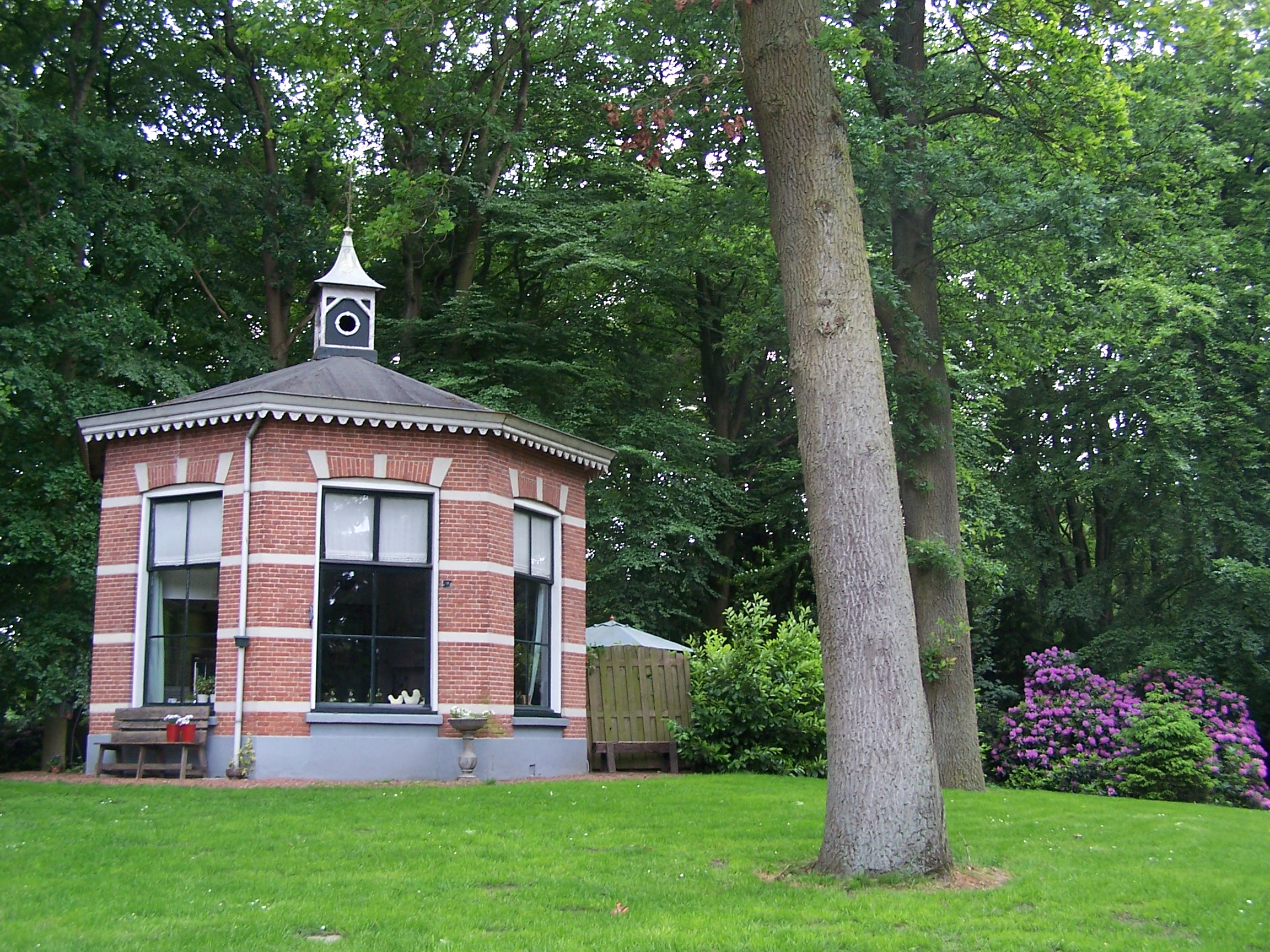 Tea house next to estate Wilgenkamp in Twekkelo, The Netherlands.